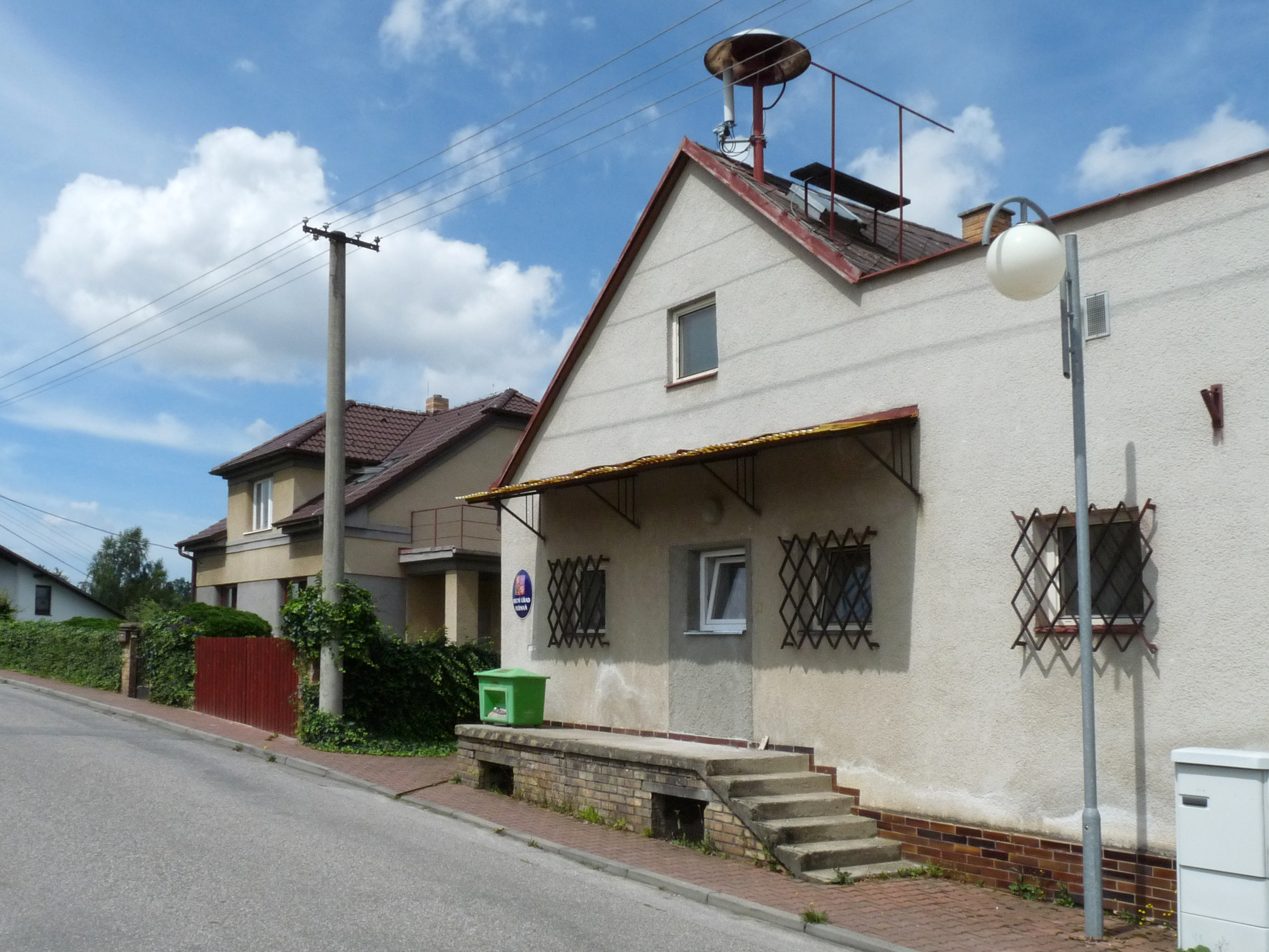 Municipal authority building and library in Heřmaň, České Budějovice district, Czech Republic